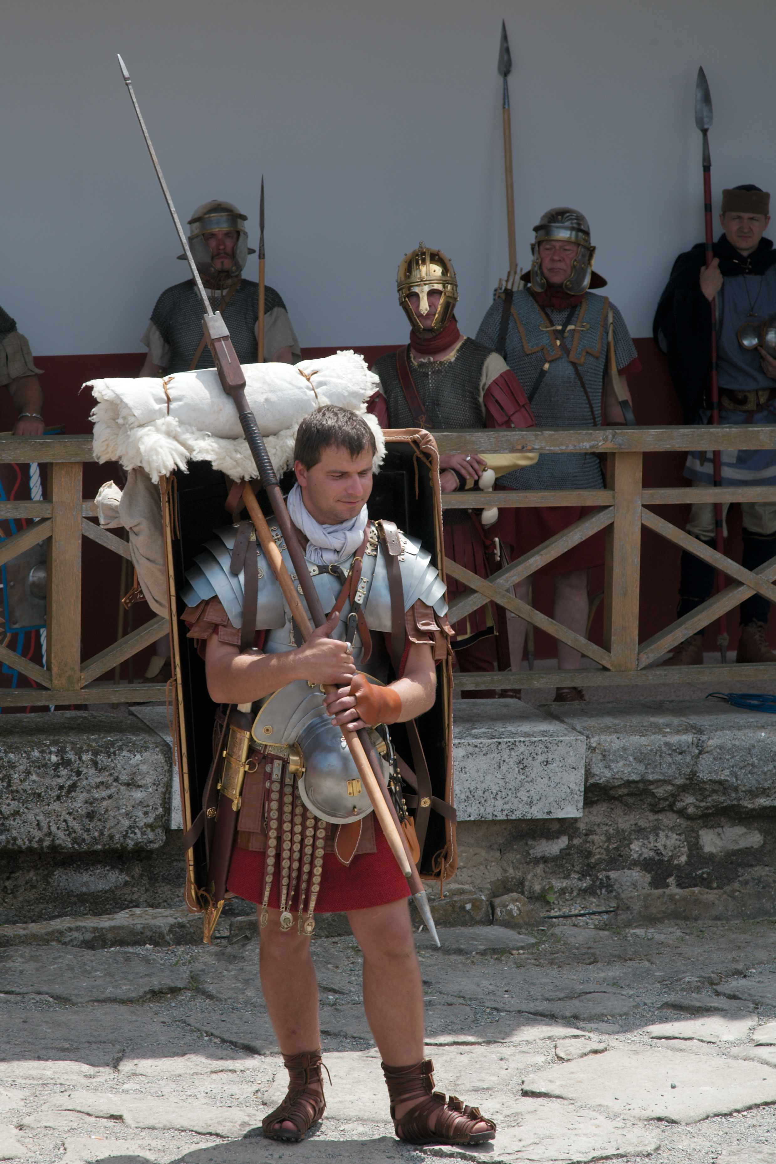 Roman legionaire 1. century with luggage front view. Reenactment of [1]